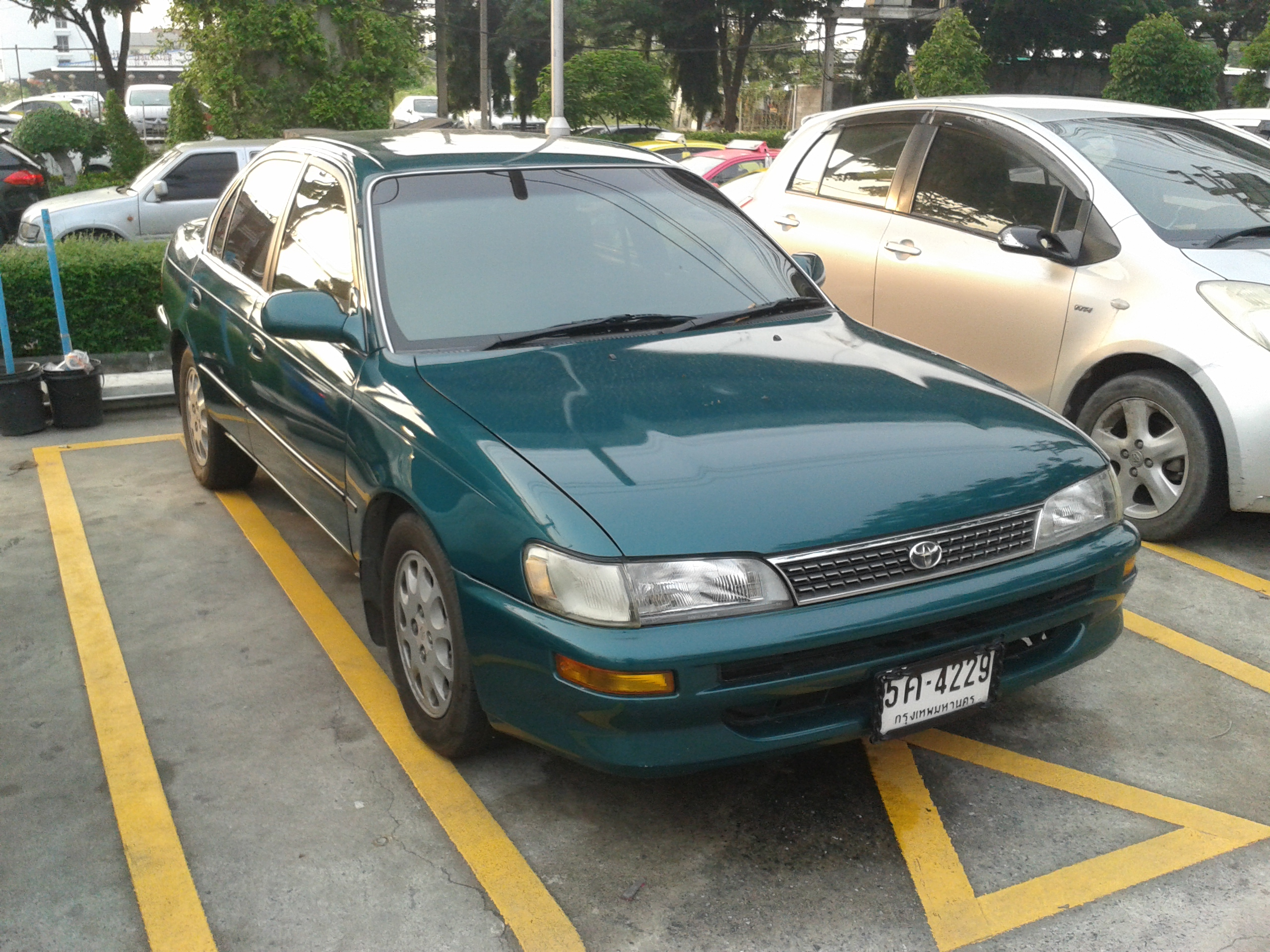 Toyota Corolla (E100) in Thailand